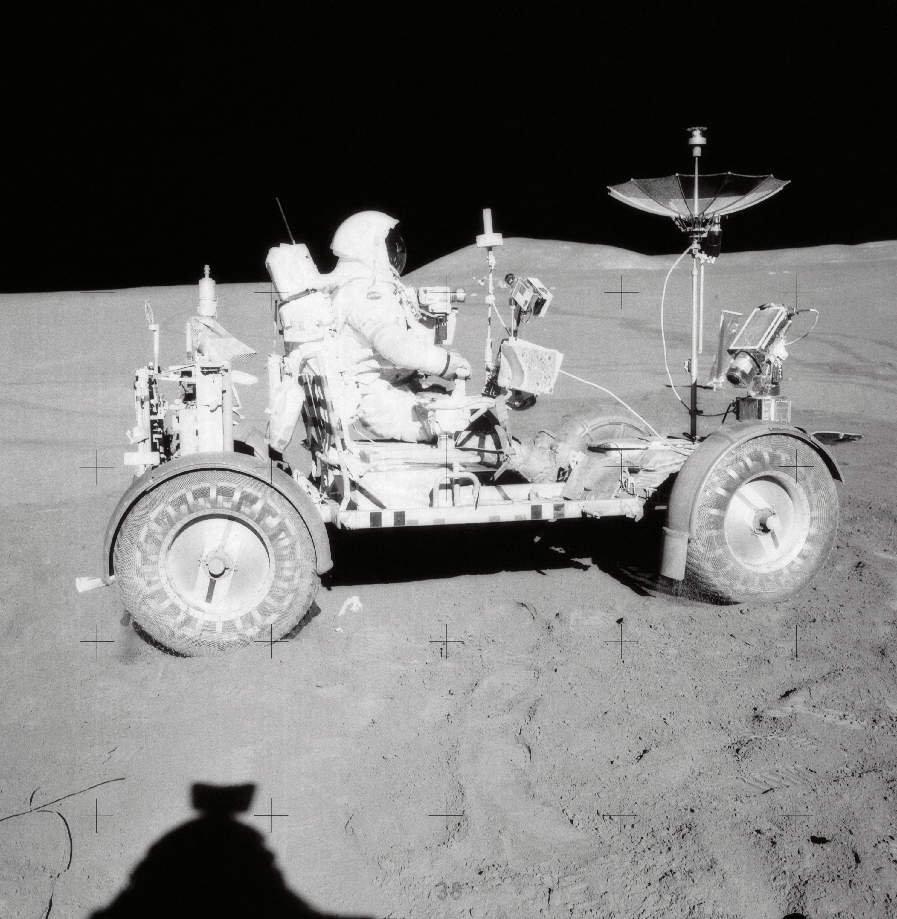 David R. Scott, Apollo 15 Commander, is seated in the Rover, Lunar Roving Vehicle (LRV) during the second lunar surface extravehicular activity (EVA-2) at the Hadley-Apennine landing site. This is figure 3-16 of the Apollo 15 Preliminary Science Report (NASA SP-289, 1972), which has the following caption (slightly edited): The Commander (David Scott) drives the Rover near the LM. Material can be seen dropping from the front and rear wheels. The ALSEP is deployed between the Rover and Hill 305 on the horizon. The solar wind composition experiment appears in the background between the television camera and the antenna mast.